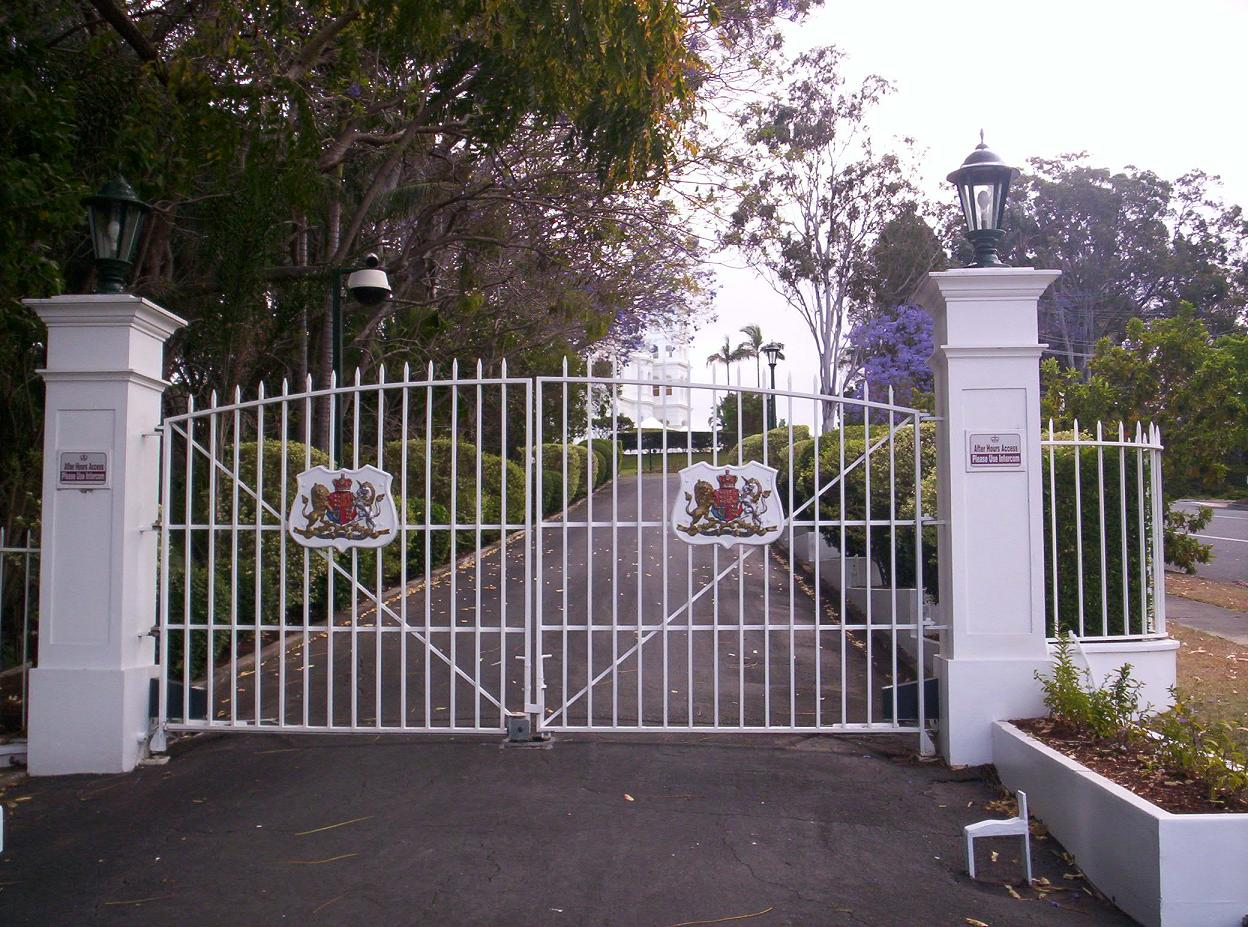 Gates to Government House, Queensland, at Bardon ( this photograph was taken by Figaro )